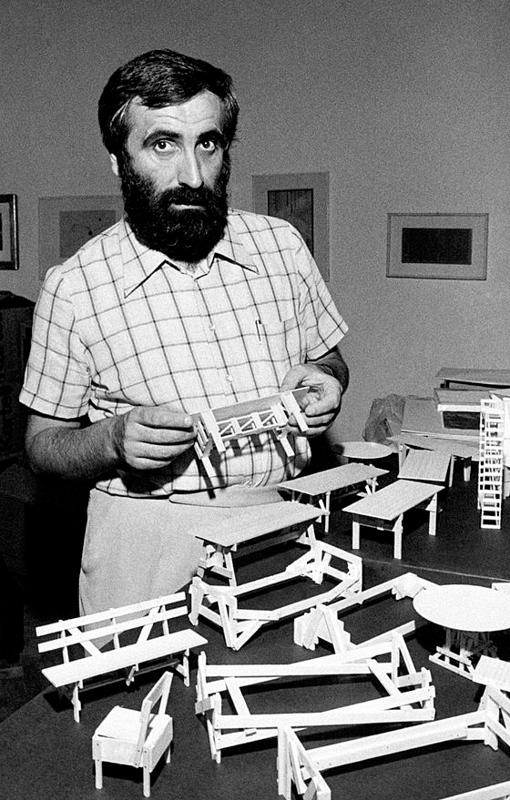 The Italian architect and designer Enzo Mari posing in his studio in front of some models of his projects. Milan, 1974